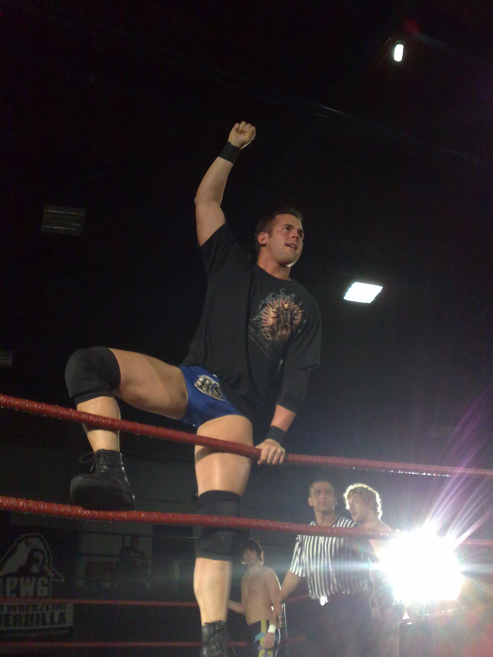 Roderick Strong at PWG BOLA 2008